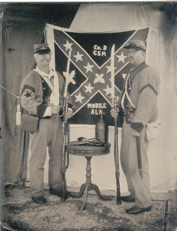 CS Marines at Chickamauga, GA